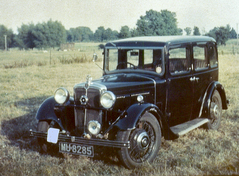 1933 Morris 10/4